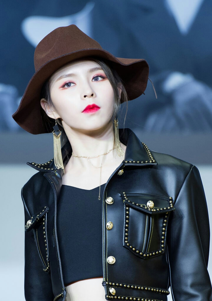 Elkie Chong at Youngpoong Bookstore Gangnam Station Store Fan Sign Event on March 03, 2018.